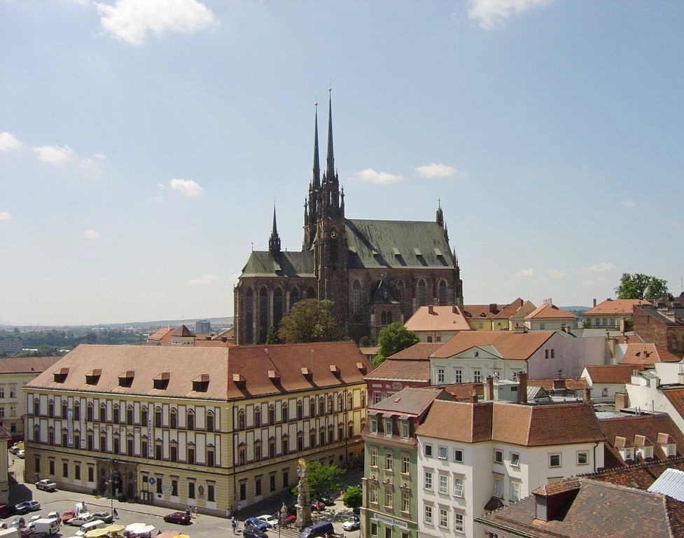 Petrov from the Old Town Hall